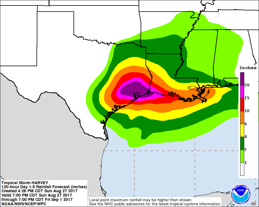 The Quantitative Precipitation Forecast (QPF) for Tropical Storm Harvey and its remnants from 19:00CDT 27 August to 19:00CDT 1 September. It shows a further 20+ inches of rain predicted for the Houston, Texas area which was already experiencing significant flooding on 27 August. The source describes this product as: "This graphic is created by the NWS/NCEP Weather Prediction Center (WPC) and shows rainfall potential for the United States when a tropical cyclone threatens land. The graphic is displayed as a Quantitative Precipitation Forecast (QPF), which shows rainfall totals for a specified time period, based on forecaster discretion."